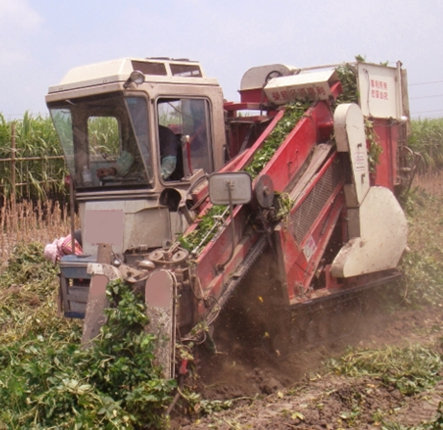 Track-typed peanut harvester